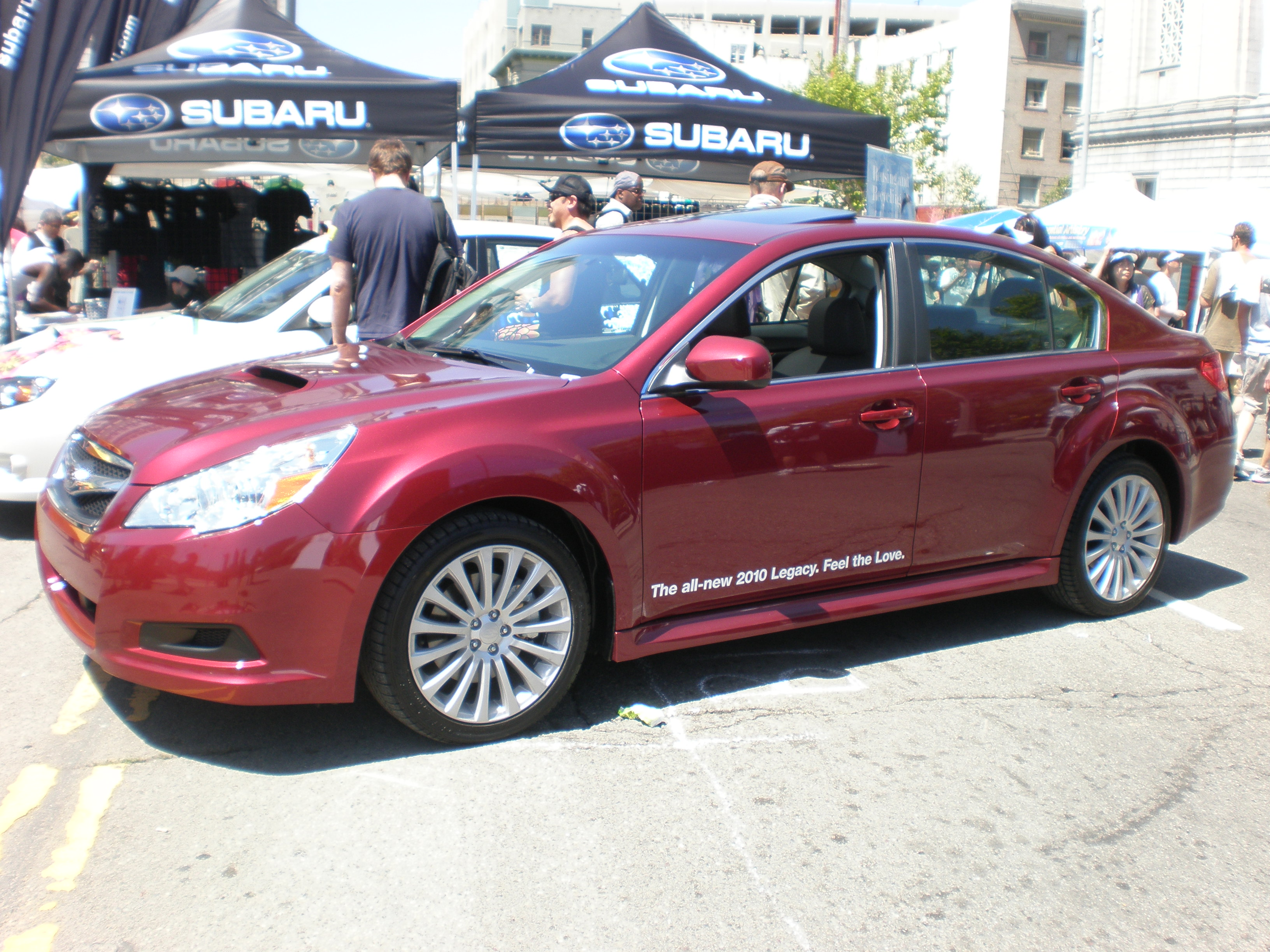 A 2009 Subaru Legacy 2.5GT at the 5th Annual Asian Heritage Street Celebration in San Francisco, California.